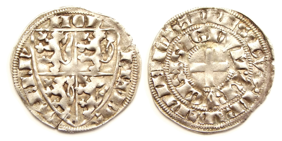 Brabant, John III (1312-1355), half groat or demi gros, struck in 1326 (Brussels). Obverse: Shield with the arms of Brabant and Limburg; legend: MONTETA.BRVXELN'. Reverse: + SIGNVM : CRVCIS around cross; + IOHANNES : DVX : BRABANTIE in outer circle.